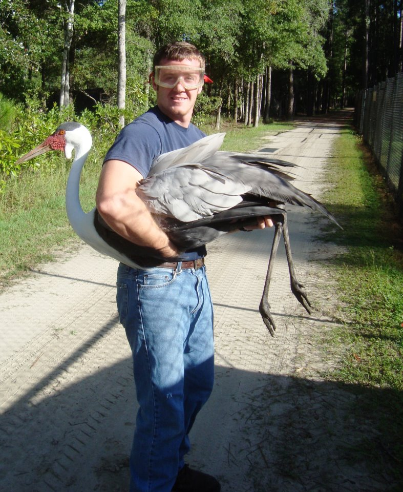 An animal specialist at White Oak Conservation holds a wattled crane.